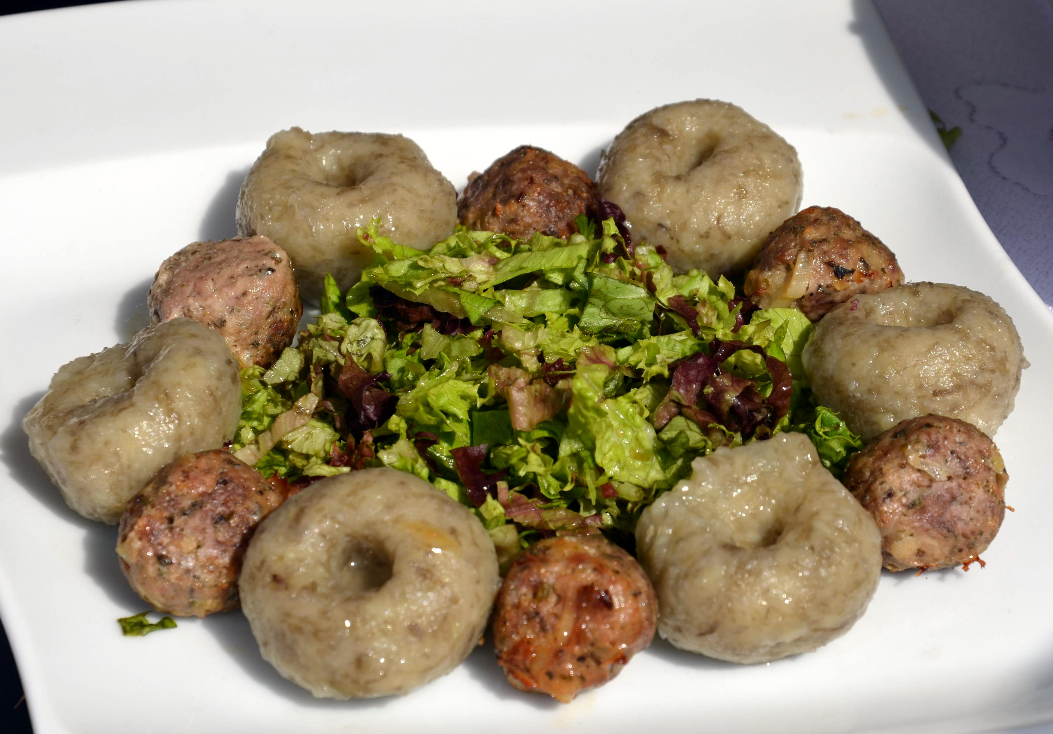 Cuisine of Silesia